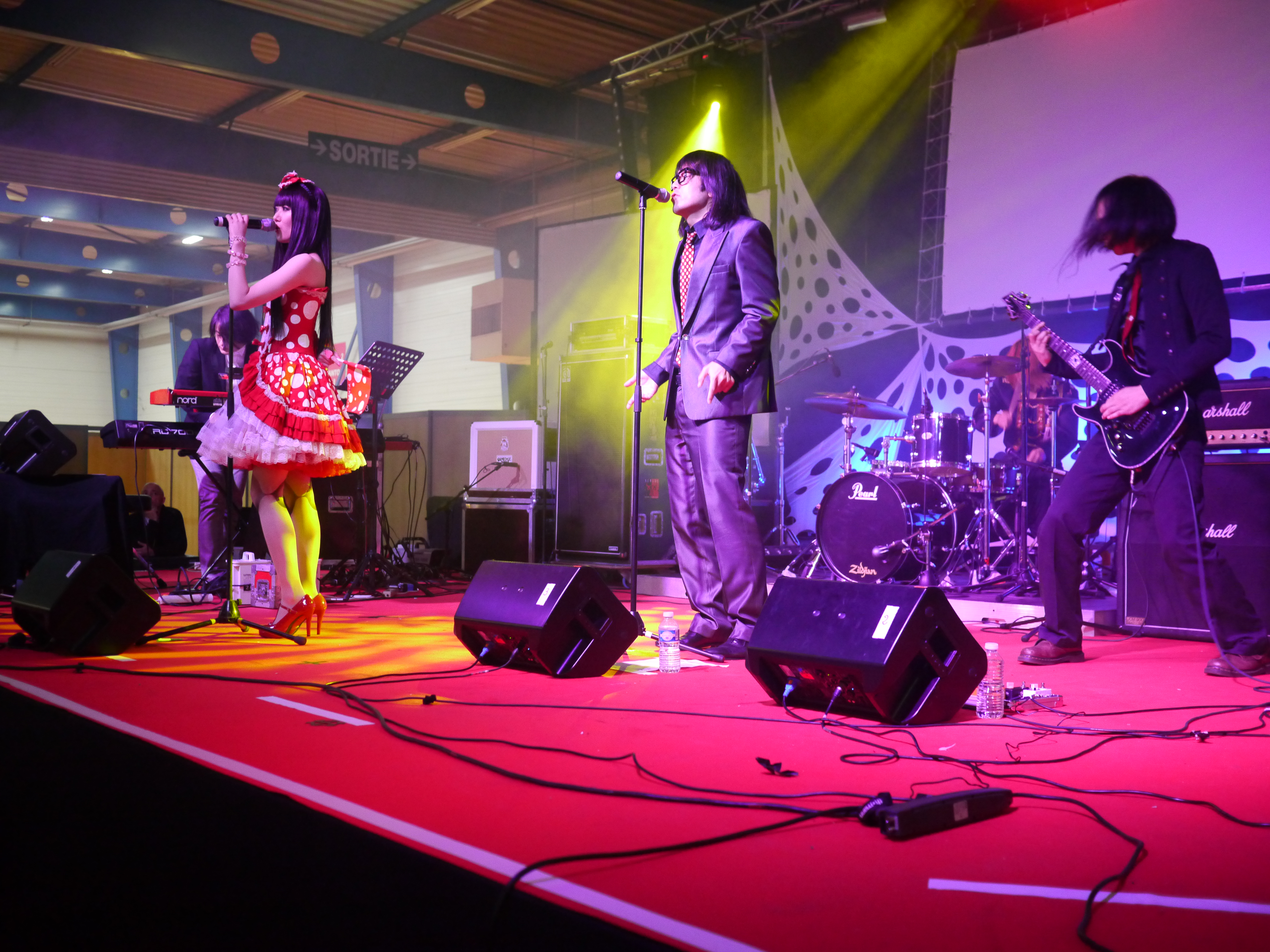 Toulouse Game Show Festival, 6th edition.